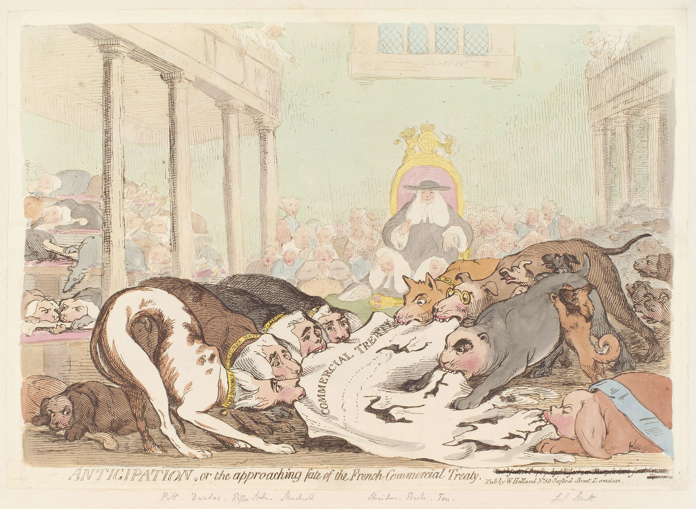 Anticipation, or the approaching fate of the French Commercial Treaty, by James Gillray (died 1815), published 1787. All images in this batch have been confirmed as author died before 1939 according to the official death date listed by the NPG.